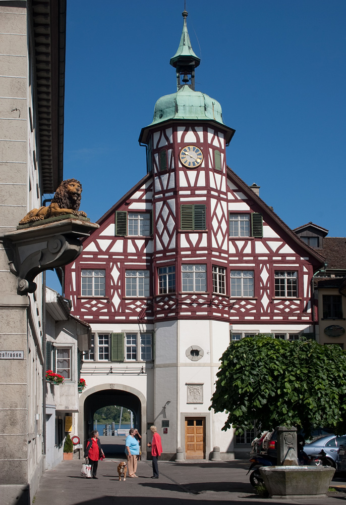 The town hall of Steckborn, in the canton of Thurgau, Switzerland, built 1667. Seen from the 'Seestrasse' side. Behind the building, through the archway, is the Untersee arm of Lake Constance. [Camera data: (Canon EOS 300D DIGITAL); 1/100 sec; f16; image: 2048px x 3072px; RAW]